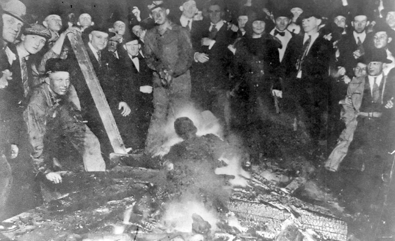 The charred corpse of Will Brown after being killed, mutilated and burned. The burning of William Brown, Omaha, Neb., Sept. 28, 1919.